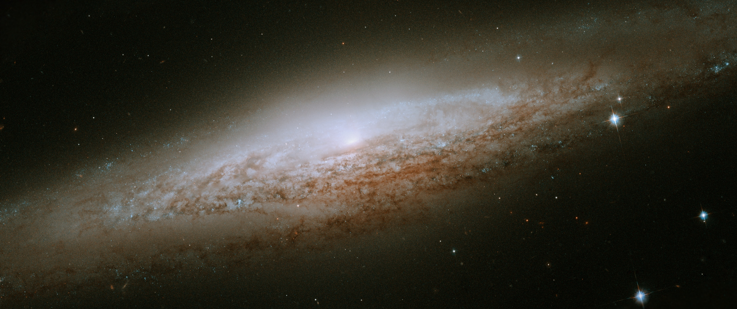 Large mosaic Hubble Space Telescope image of NGC2683